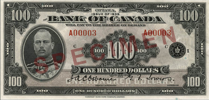 1935 Series $100 banknote, obverse